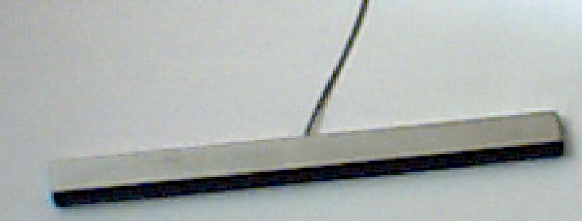 The Wii Sensorbalk for the Nintendo Wii.